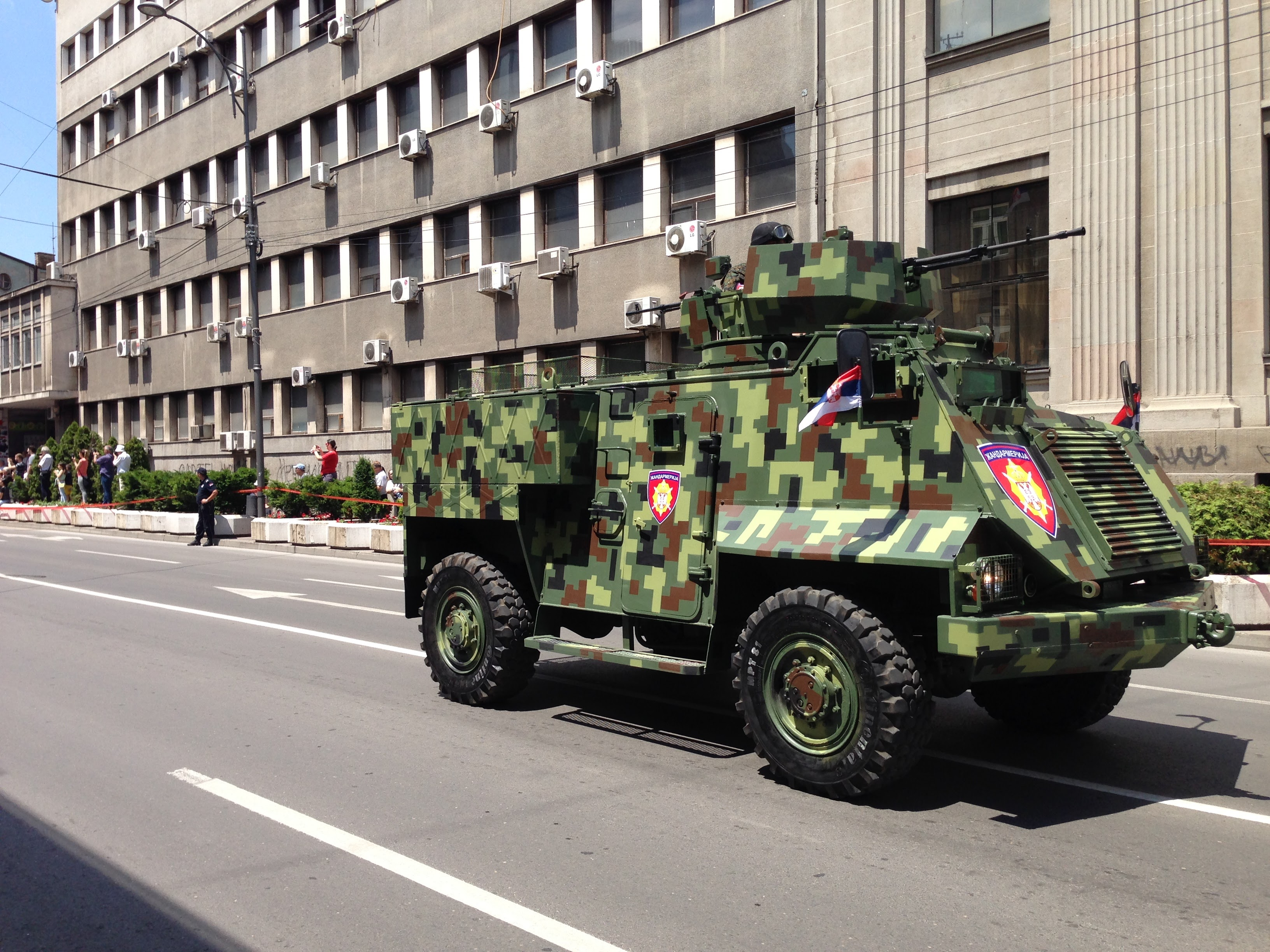 Police Day Niš, 2017. Serbia